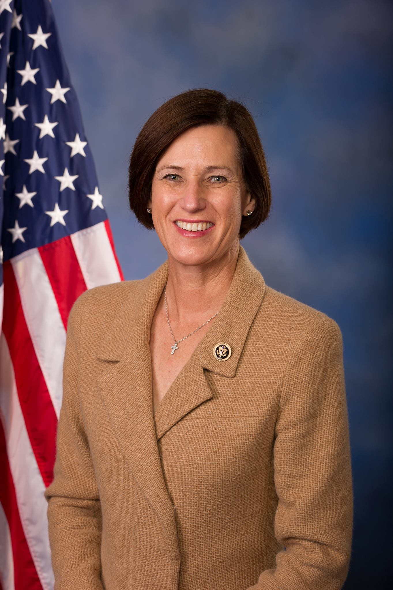 Mimi Walters official photo 2, 114th Congress